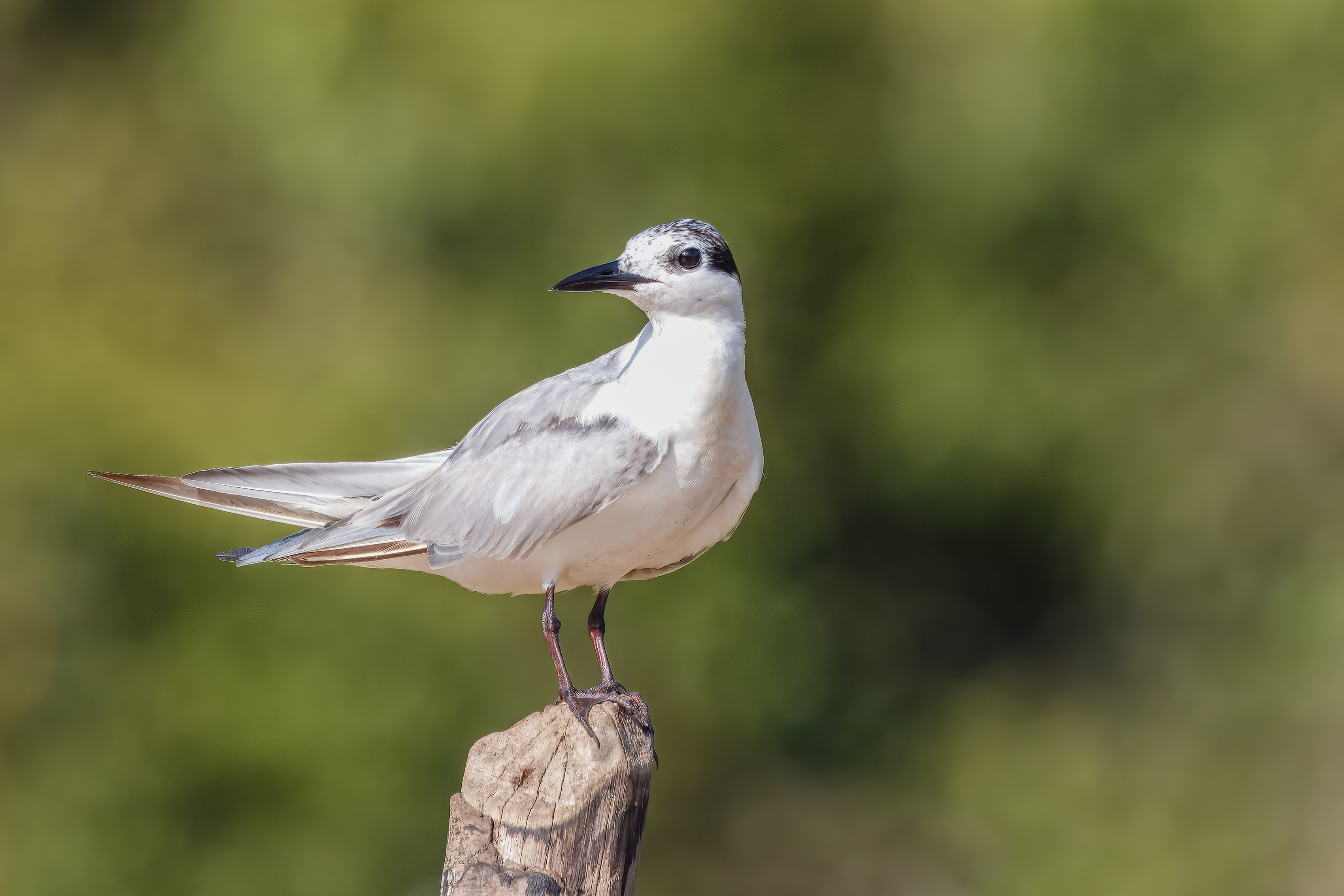 Whiskered tern (Chlidonias hybrid javanicus) winter plumage, Kenelap Oxbow Lake, Sabah, Borneo, Malaysia